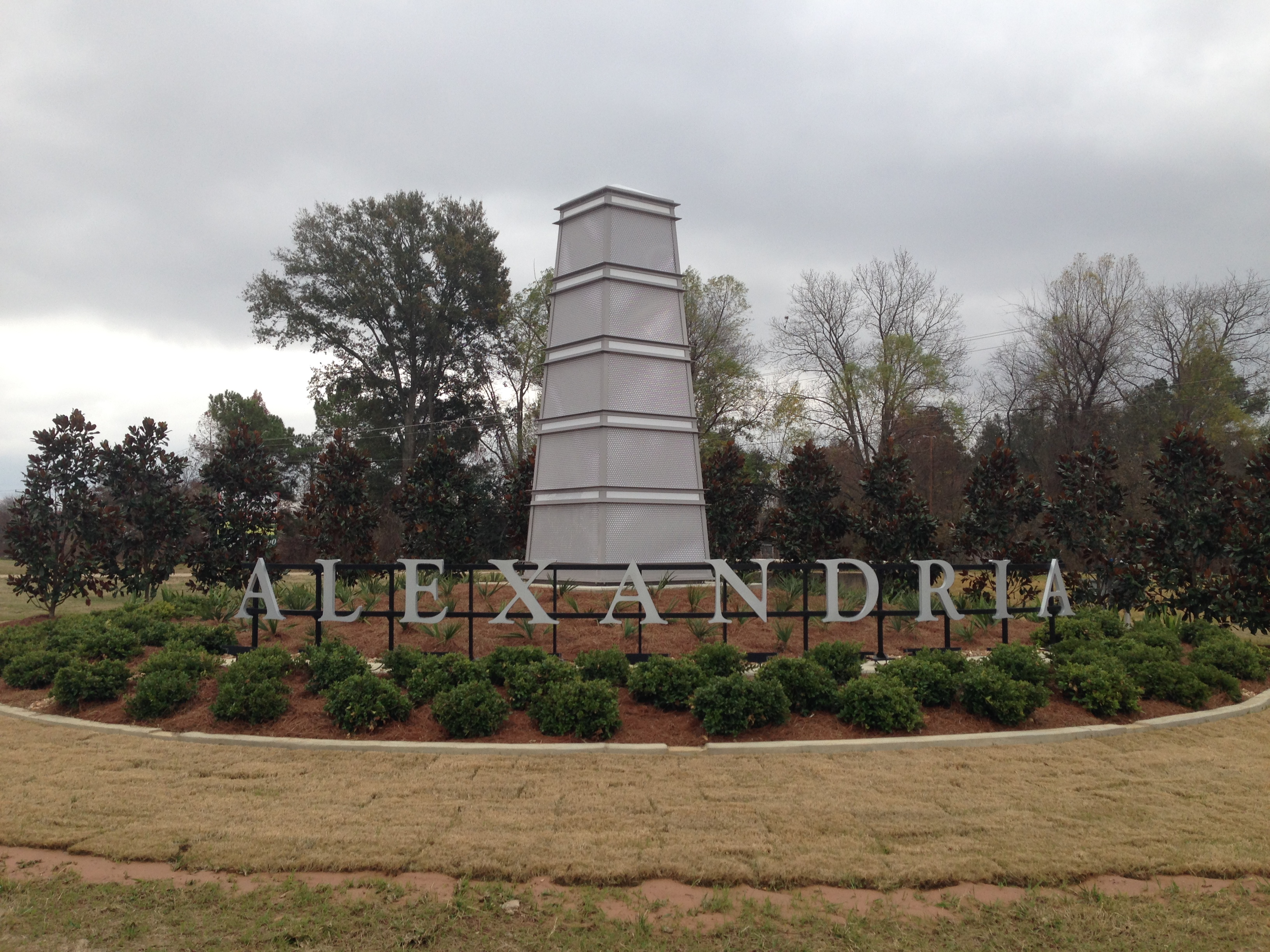 Alexandria welcome sign and obelisk on Louisiana Highway 28 (Coliseum Boulevard)